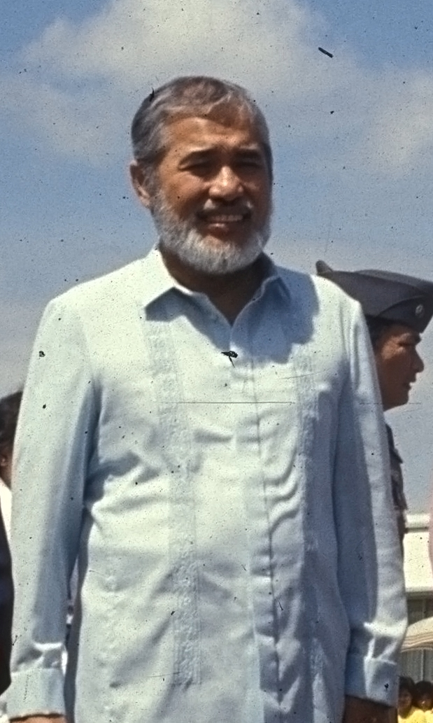 Cropped picture of Speaker Mitra from this upload. Part of the image collection of the International Rice Research Institute (IRRI).